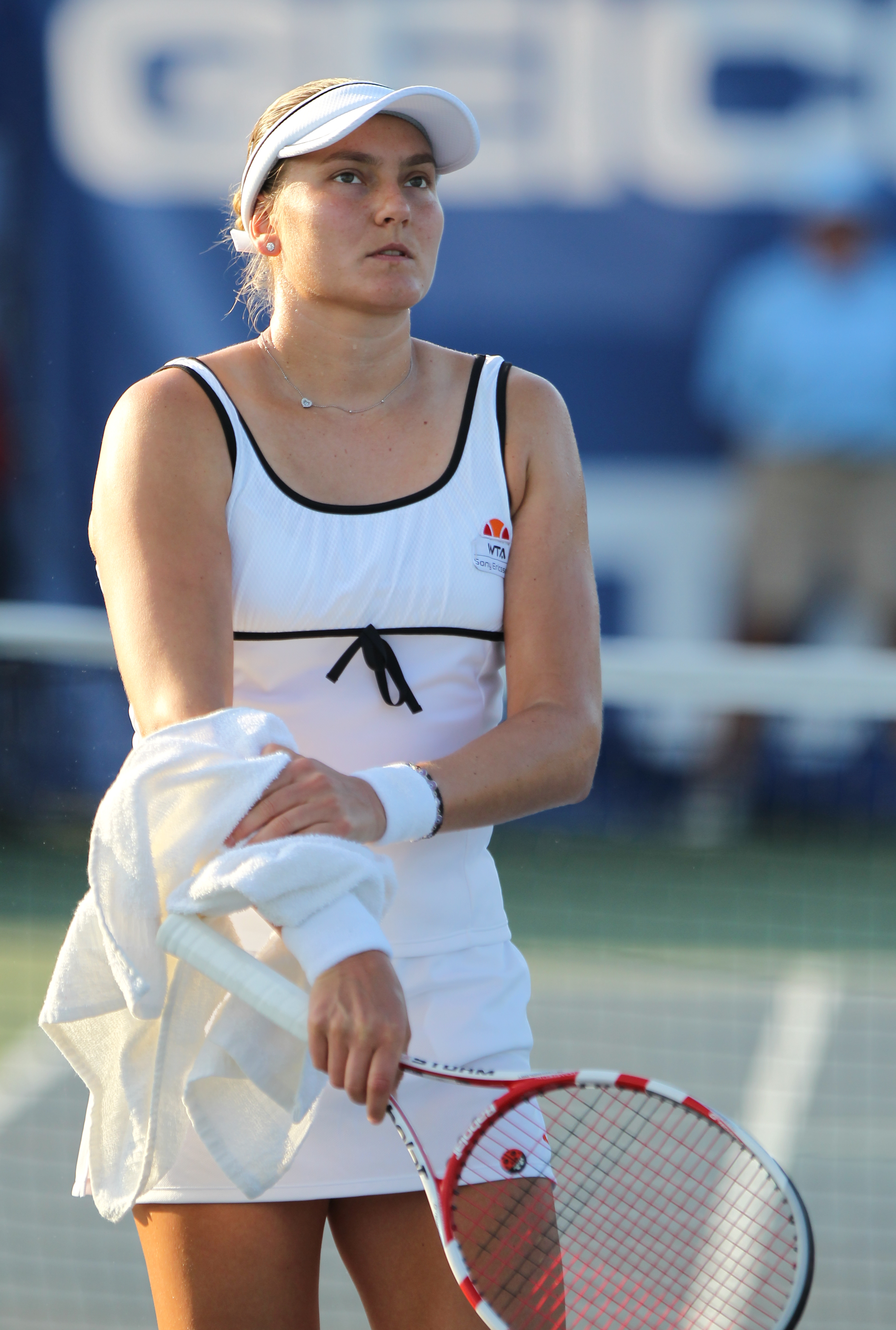 Citi Open Tennis July 30, 2011